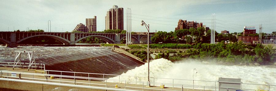 Saint Anthony Falls in Minneapolis, Minnesota.